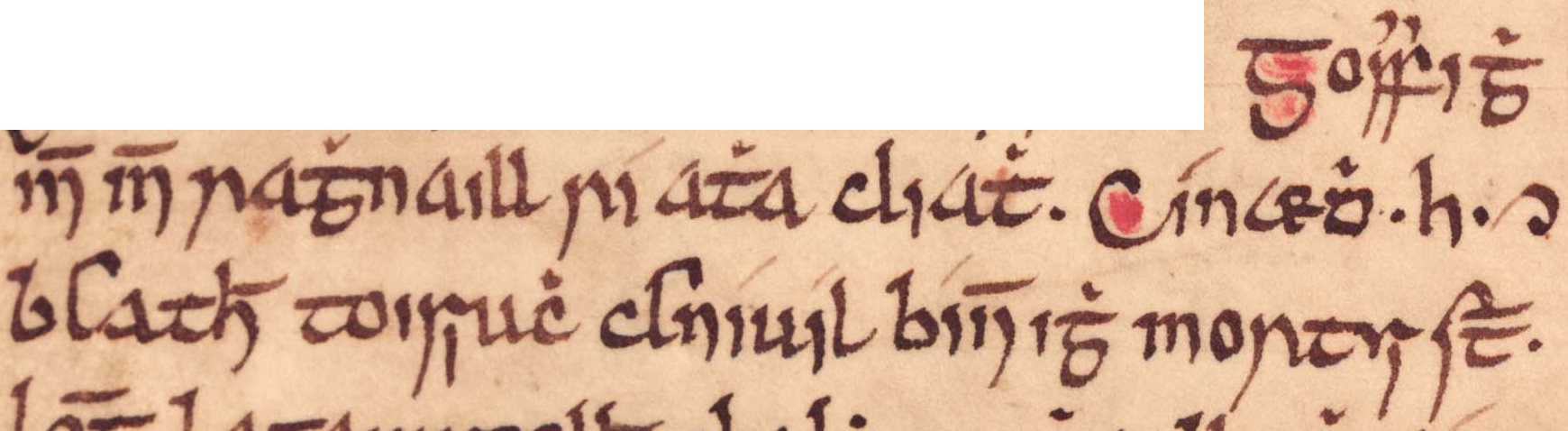 An excerpt from the Annals of Ulster (Bodleian Library MS. Rawl. B. 489, folio 43v). The excerpt is dated 1075, and refers to the deaths of Gofraid mac Amlaíb meic Ragnaill, King of Dublin, and Cinaed, grandson of Cú Bethad.